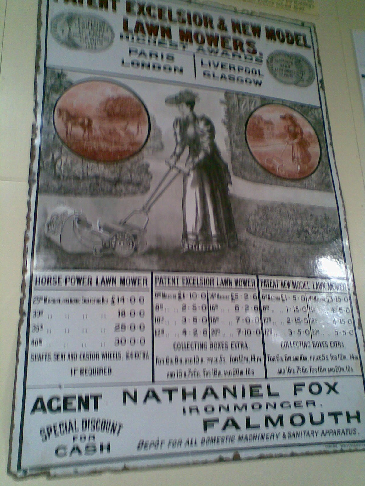 Advertisement for Excelsior lawn mowers, on sale from Nathaniel Fox, ironmonger, of Falmouth, Cornwall, UK probably dated 1900. The advertisement is enamel on iron. The advertisement is on display at the National Museum of Gardening, Trevarno, Cornwall, UK.